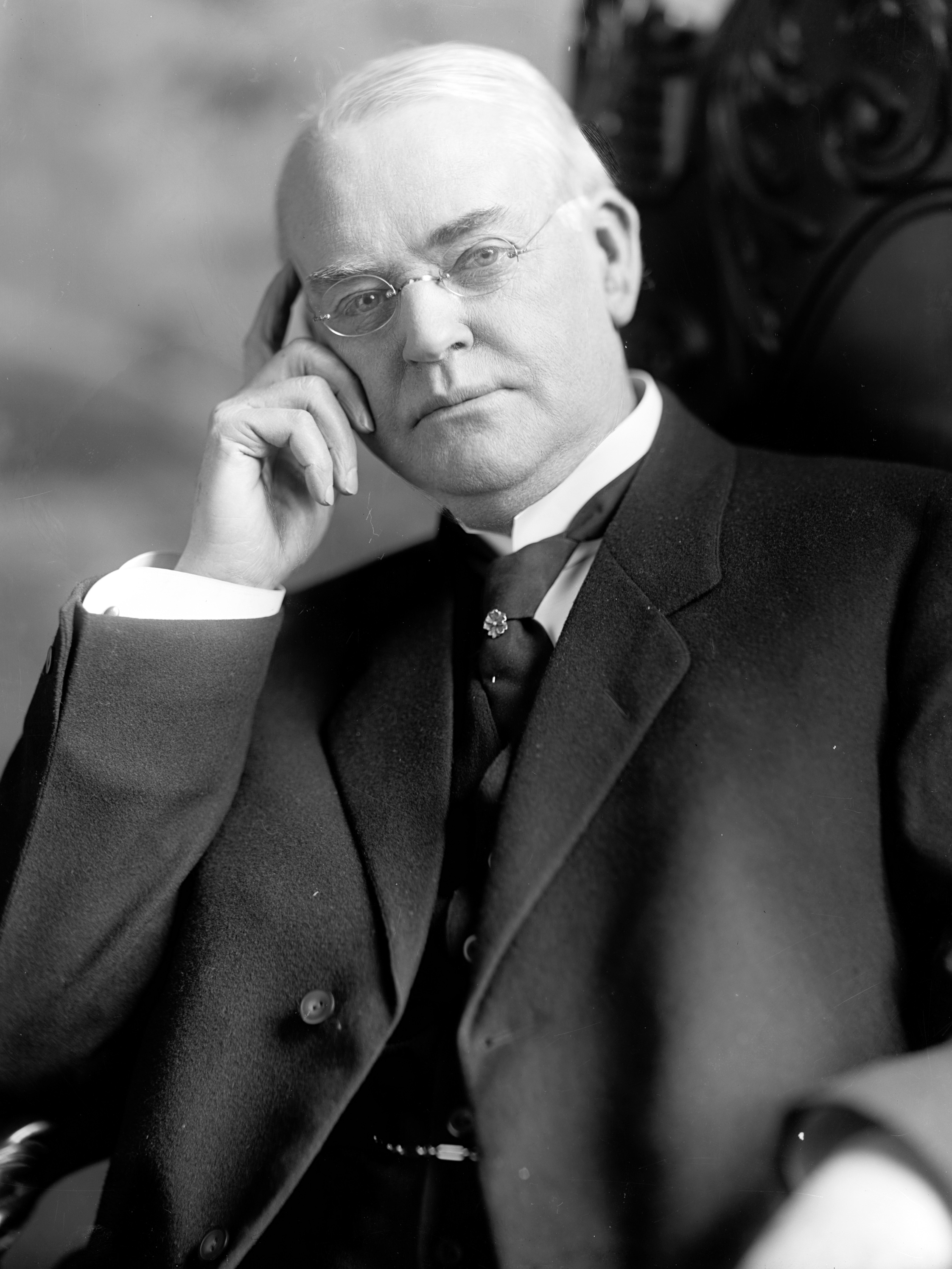 John D. Works, US Senator from California